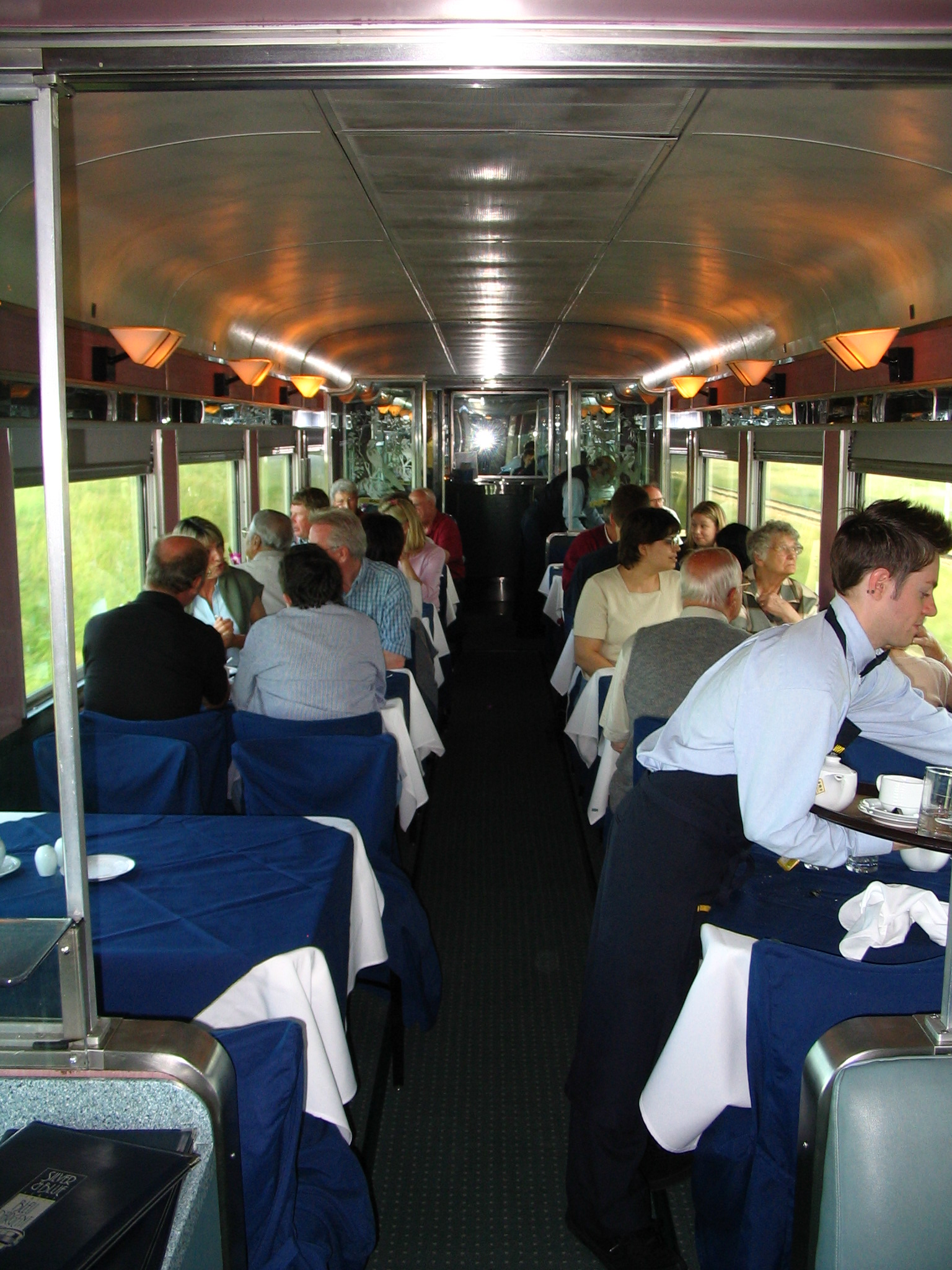 From Vancouver heading East. Dining each night with new and interesting people. Excellent food. "The greatest train in Canada and one of the world's greatest train journeys, VIA Rail's "Canadian" runs 3 times a week all-year-round linking Toronto, Winnipeg, Edmonton, Jasper & Vancouver. The journey takes 3 nights (4 nights in the new timetable from 2 December 2008), and the train consists of the original 1955-built stainless-steel coaches from the Canadian Pacific Railway's "Canadian". You can travel economically in 'Comfort Class' in a reclining seat, or very comfortably in 'Silver and Blue' class with a sleeping-car room, meals included." (from